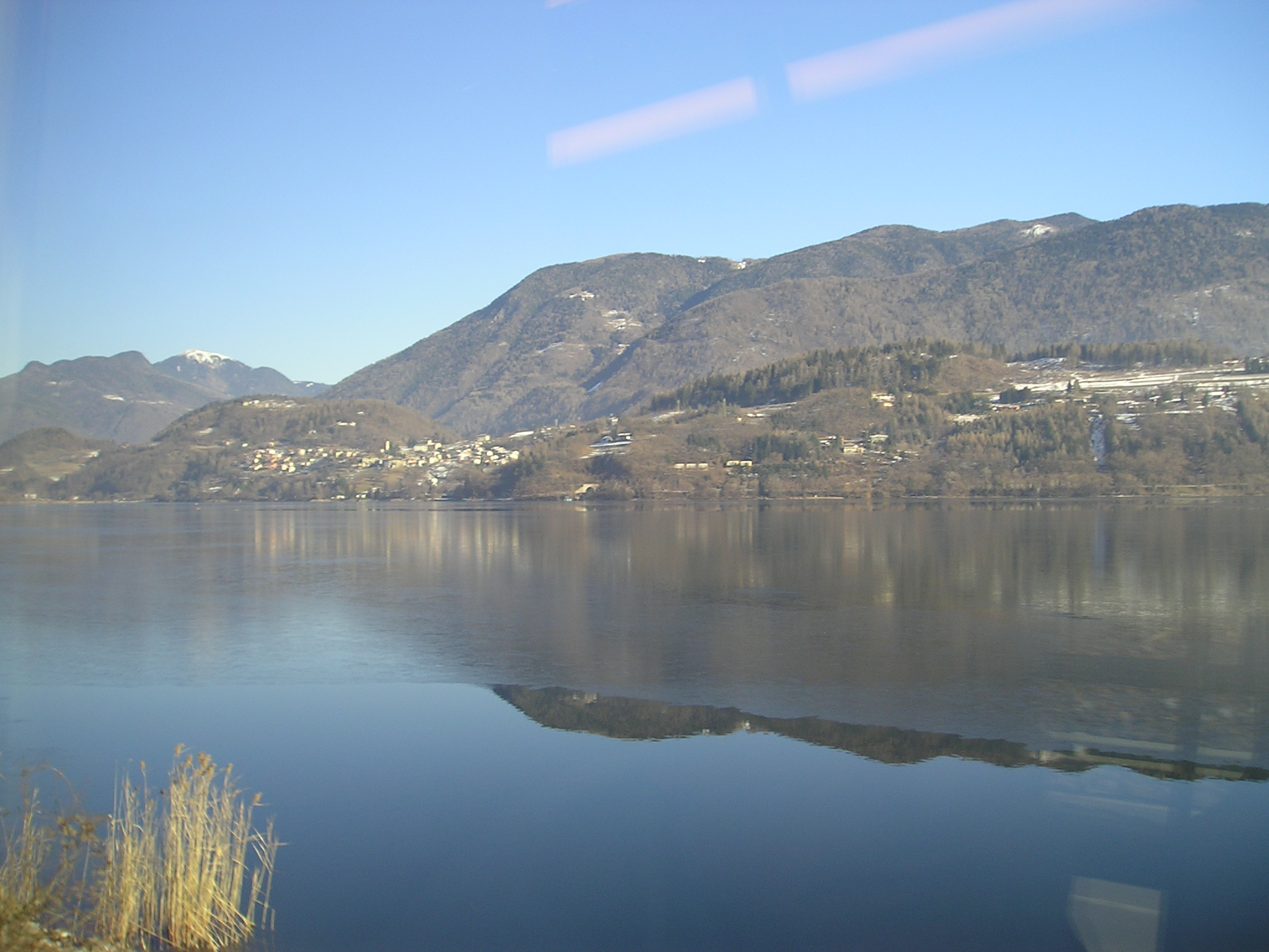 View of the lake of Caldonazzo, Province of Trento